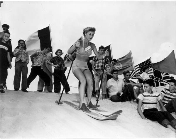 Persistent URL: Local call number: C015542 Title: Sand skiing in Fort Meade, Florida Date: December 1951 Physical descrip: 1 photoprint - b&w - 4 x 5 in. Series Title: Repository: 500 S. Bronough St., Tallahassee, FL, 32399-0250 USA, Contact: 850.245.6700